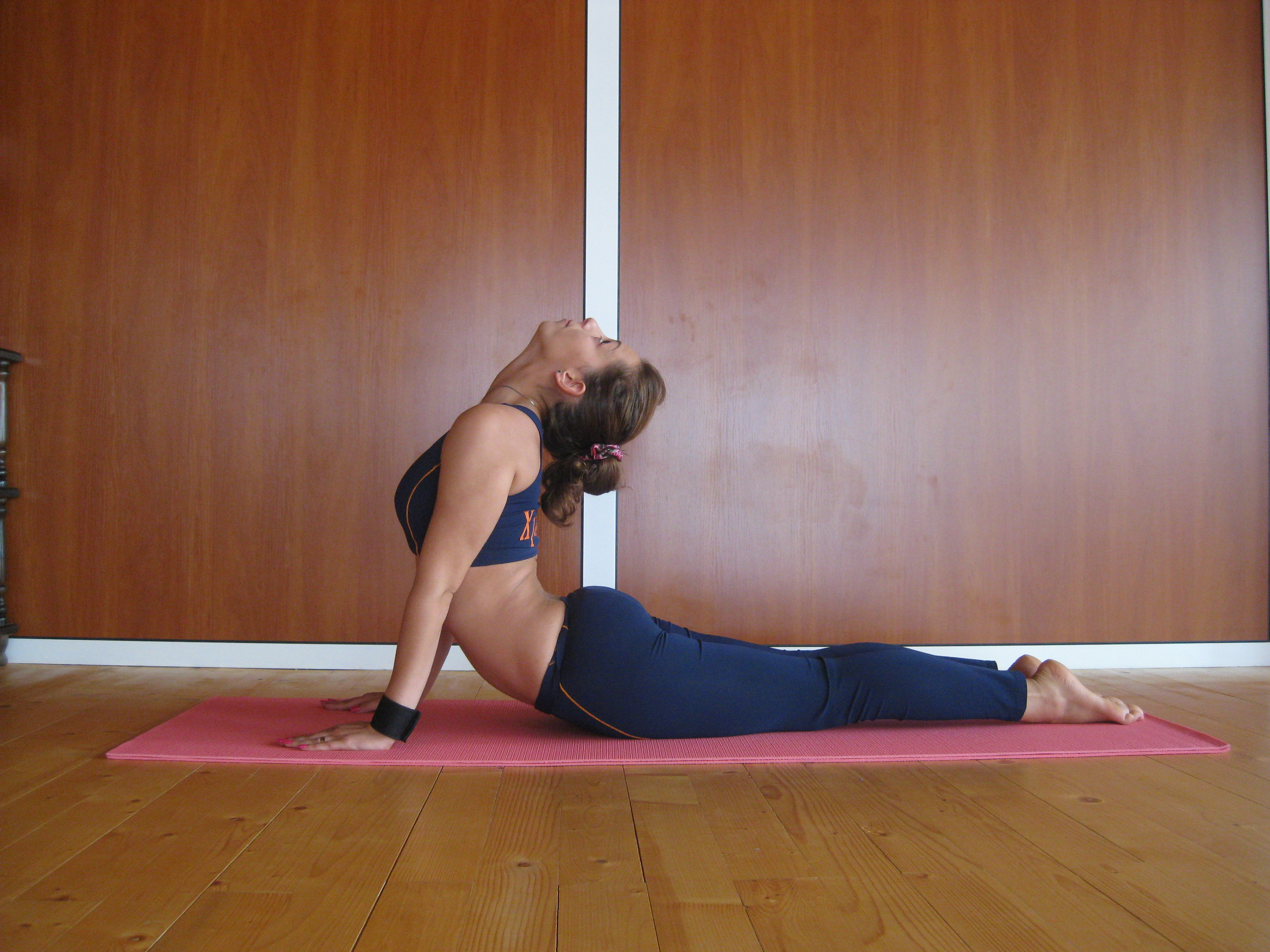 Cobra